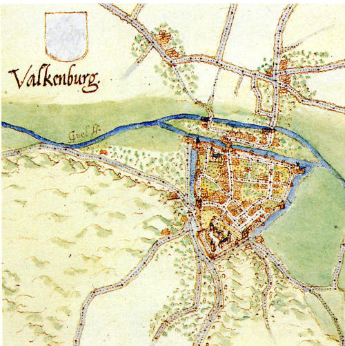 Map created by Jacob van Deventer from the 16th century.